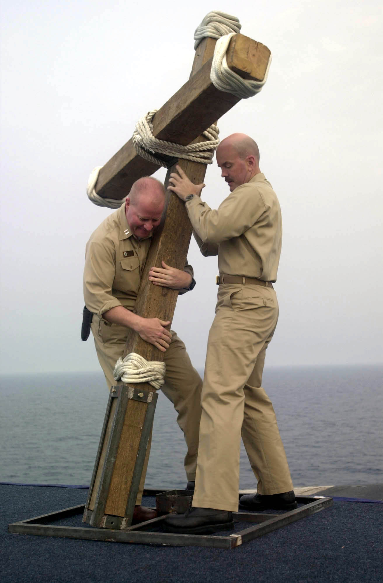 Arabian Gulf (Apr. 20, 2003) -- Chaplain Dan Reardon and Chaplain Kyle Fauntleroy work together to put up a crucifix for the Easter Sunrise Service on the flight deck of USS Nimitz (CVN 68). Nimitz and her embarked Carrier Air Wing Eleven (CVW-11) are on deployment conducting combat missions in support of Operation Iraqi Freedom. Operation Iraqi Freedom is the multi-national coalition effort to liberate the Iraqi people, eliminate Iraq's weapons of mass destruction, and end the regime of Saddam Hussein. U.S. Navy photo by Photographer's Mate 2nd Class Tiffini M. Jones. (RELEASED)